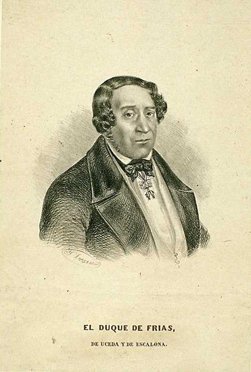 Lithography of Bernardino Fernández de Velasco, 14th Duke of Frías